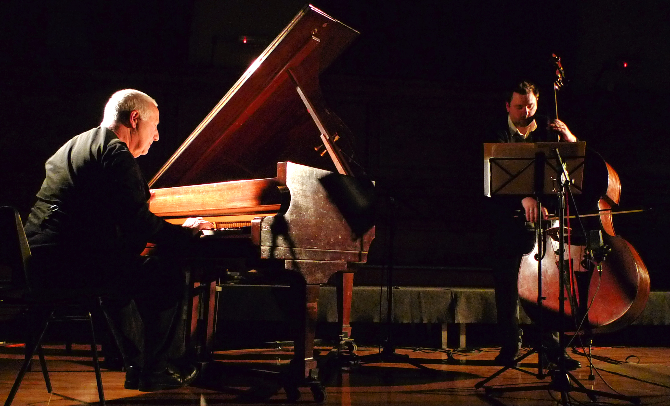 John Tilbury and Michael Francis Duch, Freedom of the City @ Cecil Sharp House, London. 2011